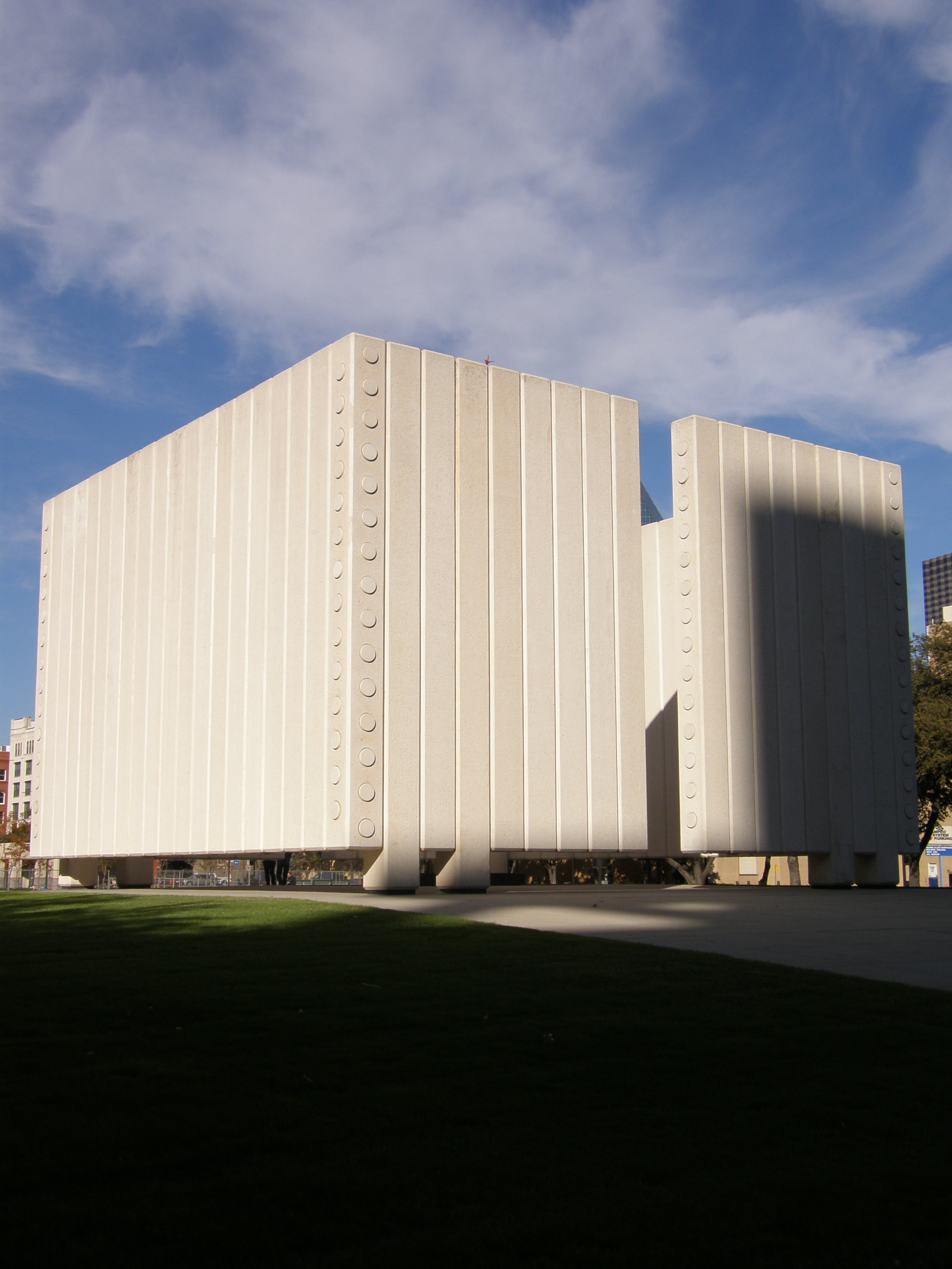 The JFK Memorial in Downtown Dallas, Texas.